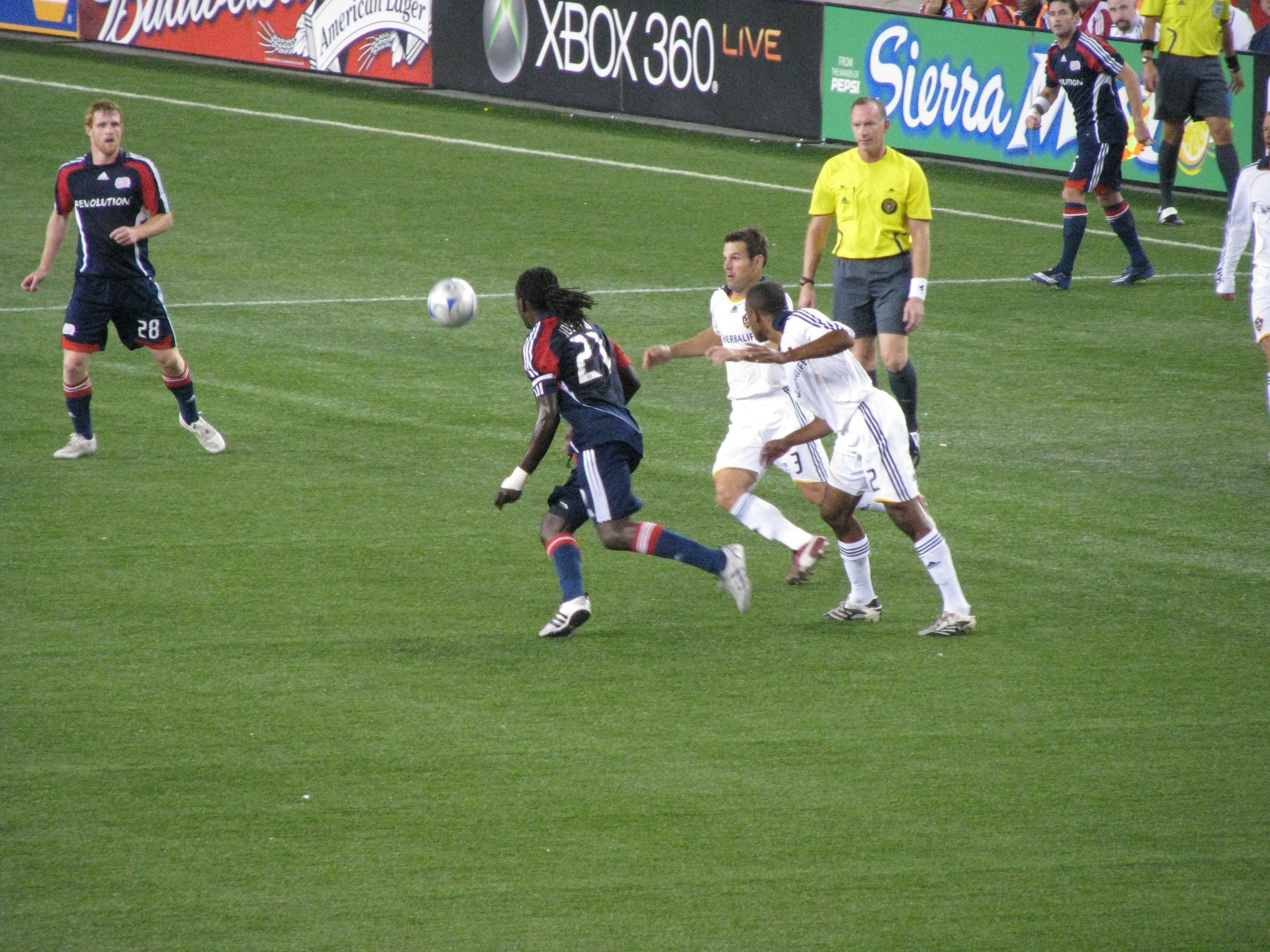 Shalrie Joseph, Pat Phelan, New England Revolution, LA Galaxy